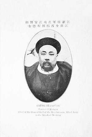 Cheng Dequan